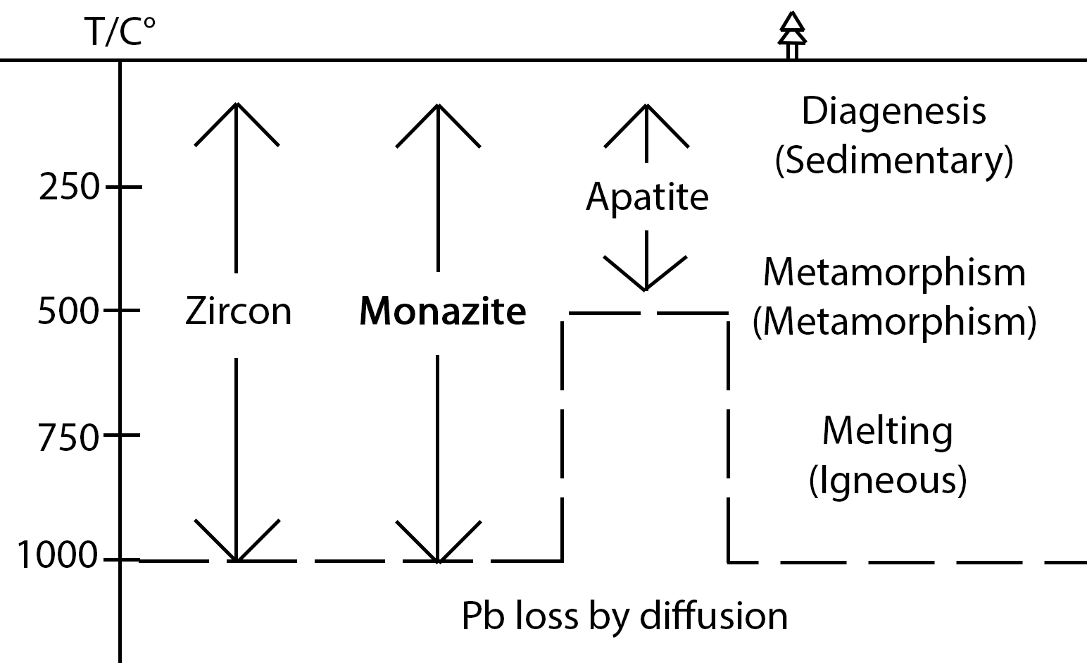 mineral dating temperature range